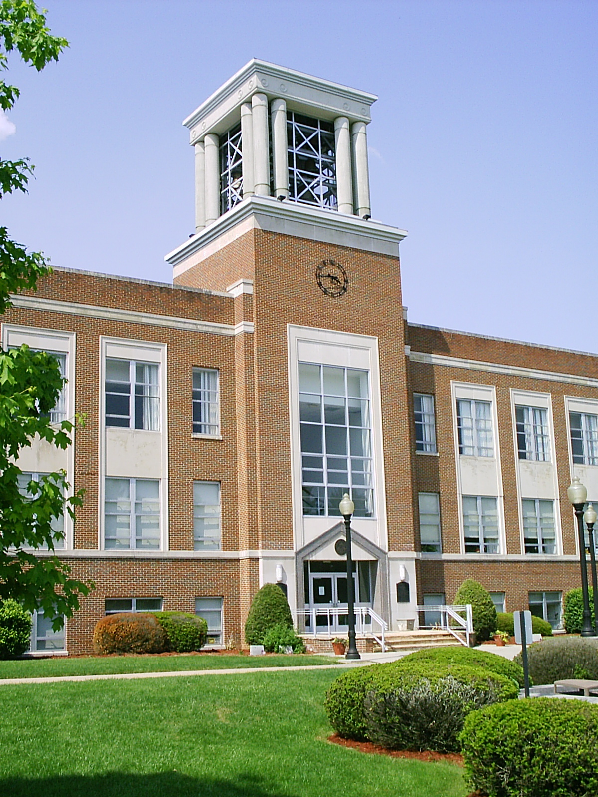 Concord University - front of Marsh Hall. The 48-bell carillon can be seen atop the building.